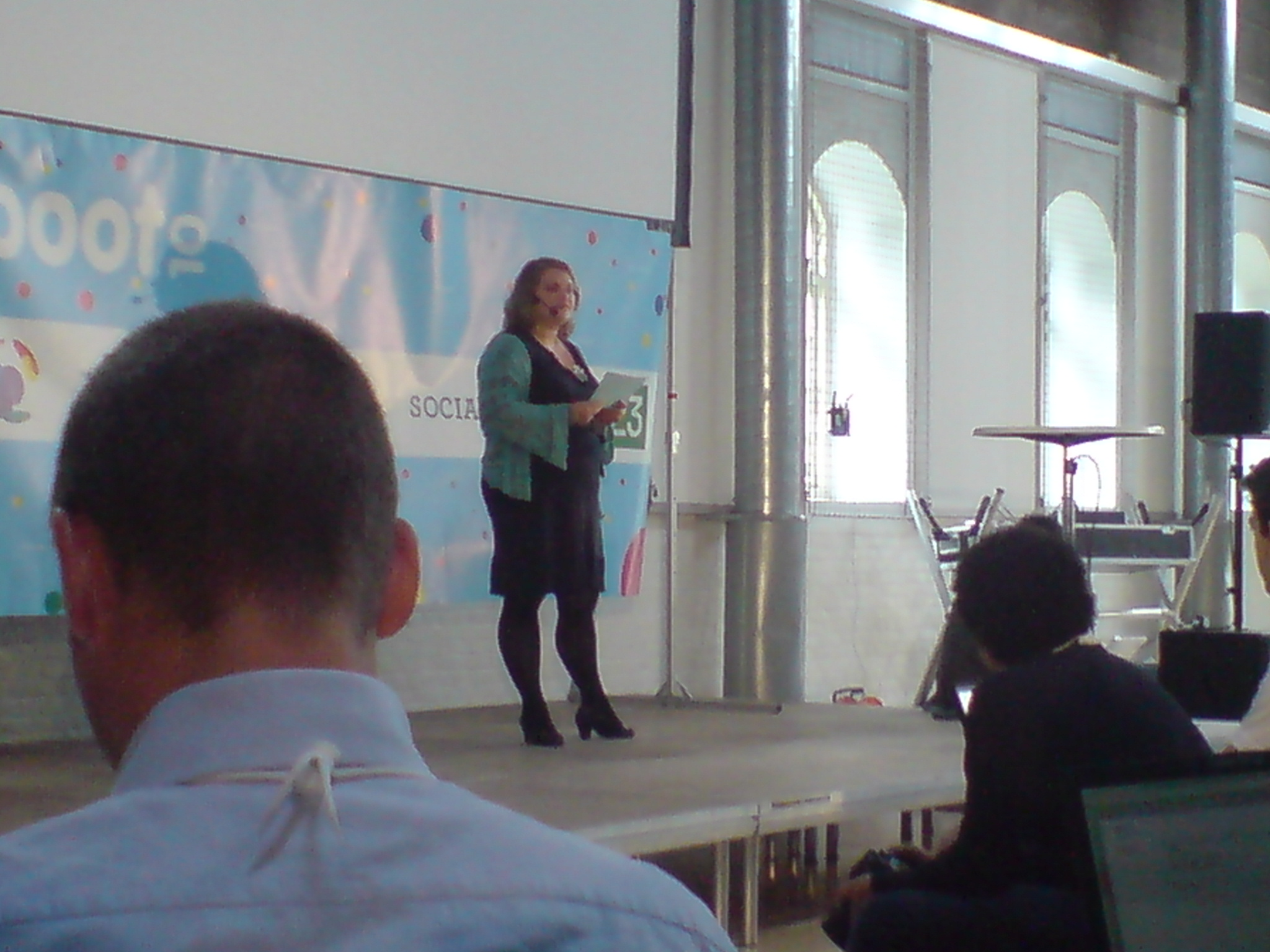 Nadja Pass speaking at the opening of Reboot 10